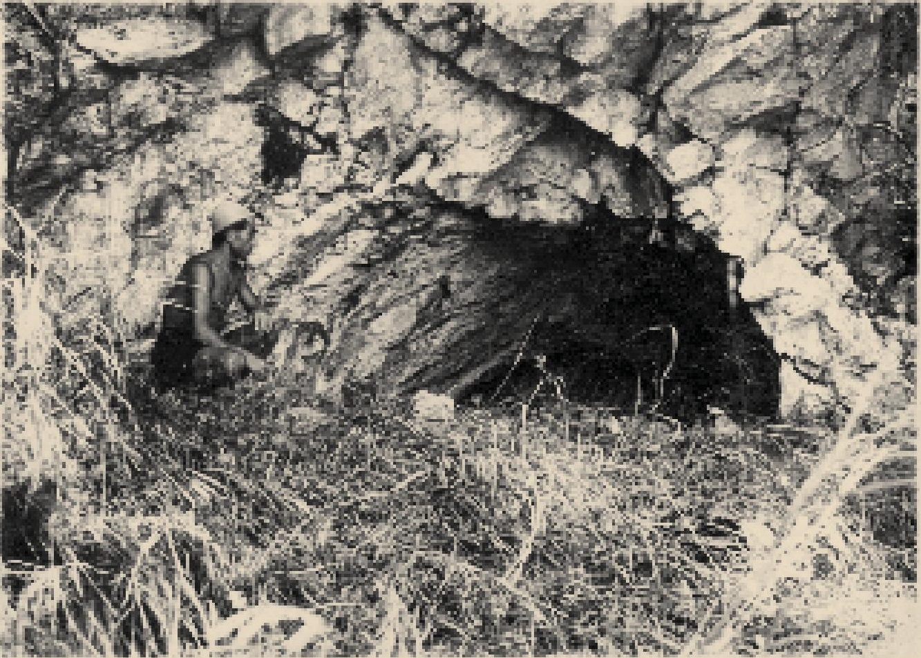 Kecskés-galya Cave entrance 1.